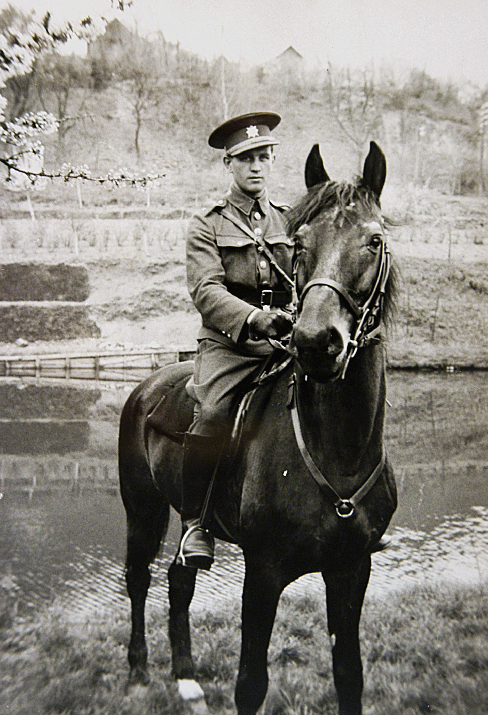 User´s Gothic2 grandfather Ladislav Janda - policeman on horse